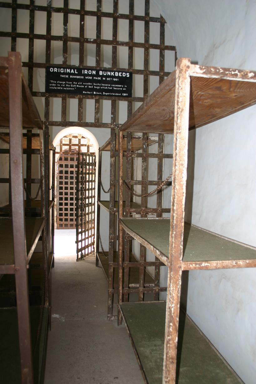 Iron bunk beds in Yuma Territorial Prison